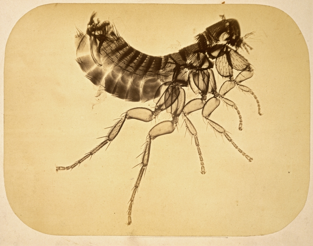 Accession Number: 1977:0638:0015 Maker: Adolphe Neyt (1830 - 1893) Title: Photomicrograph of a flea Date: ca. 1865 Medium: albumen print Dimensions: 19.8 x 15.0 cm. George Eastman House Collection · ·